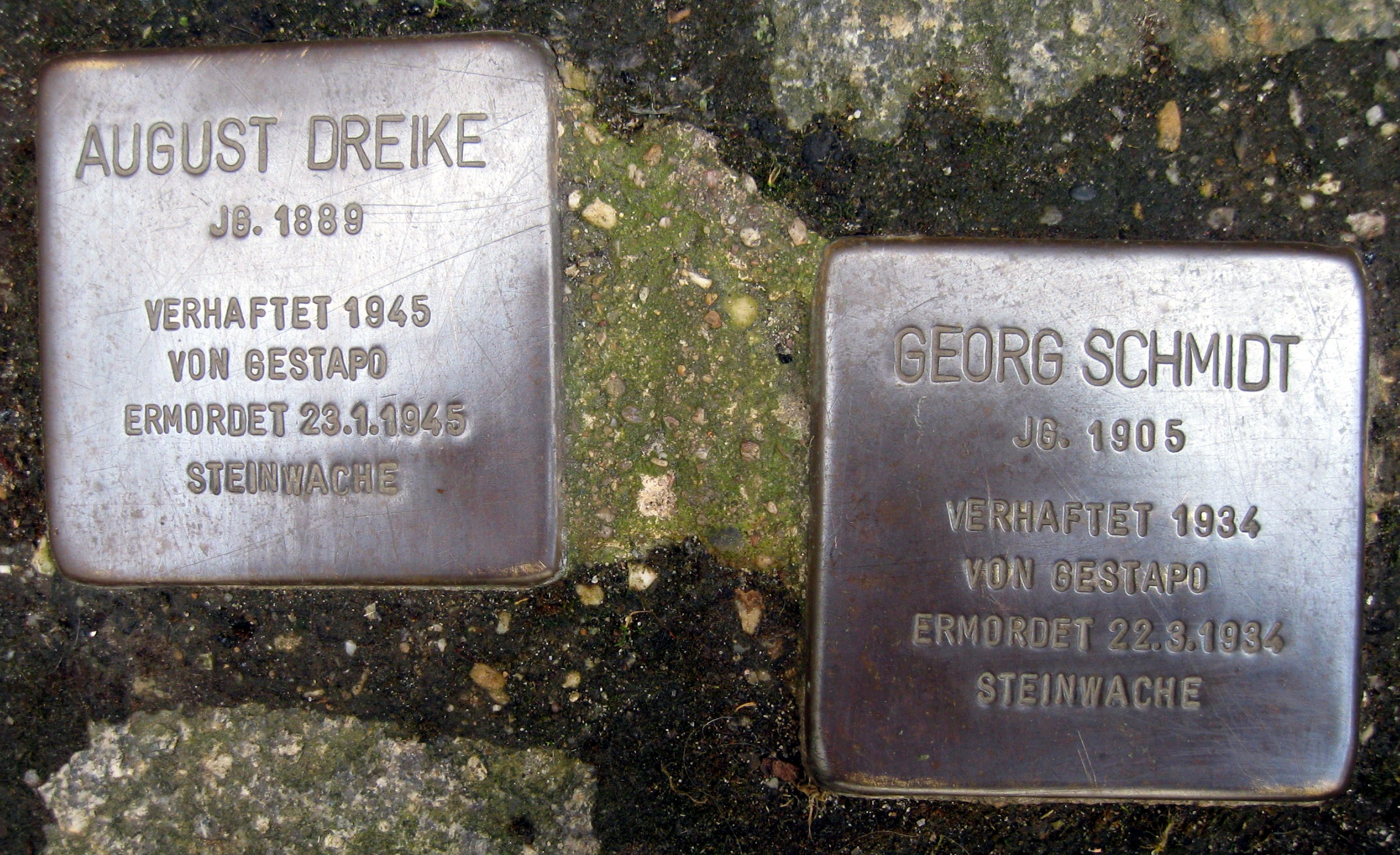 Stolpersteine in Dortmund, Steinstraße 50